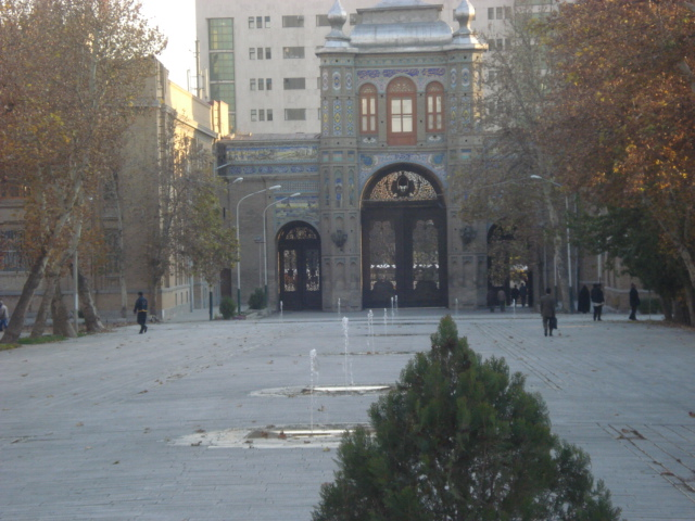 old gate of Tehran now MFA of Iran